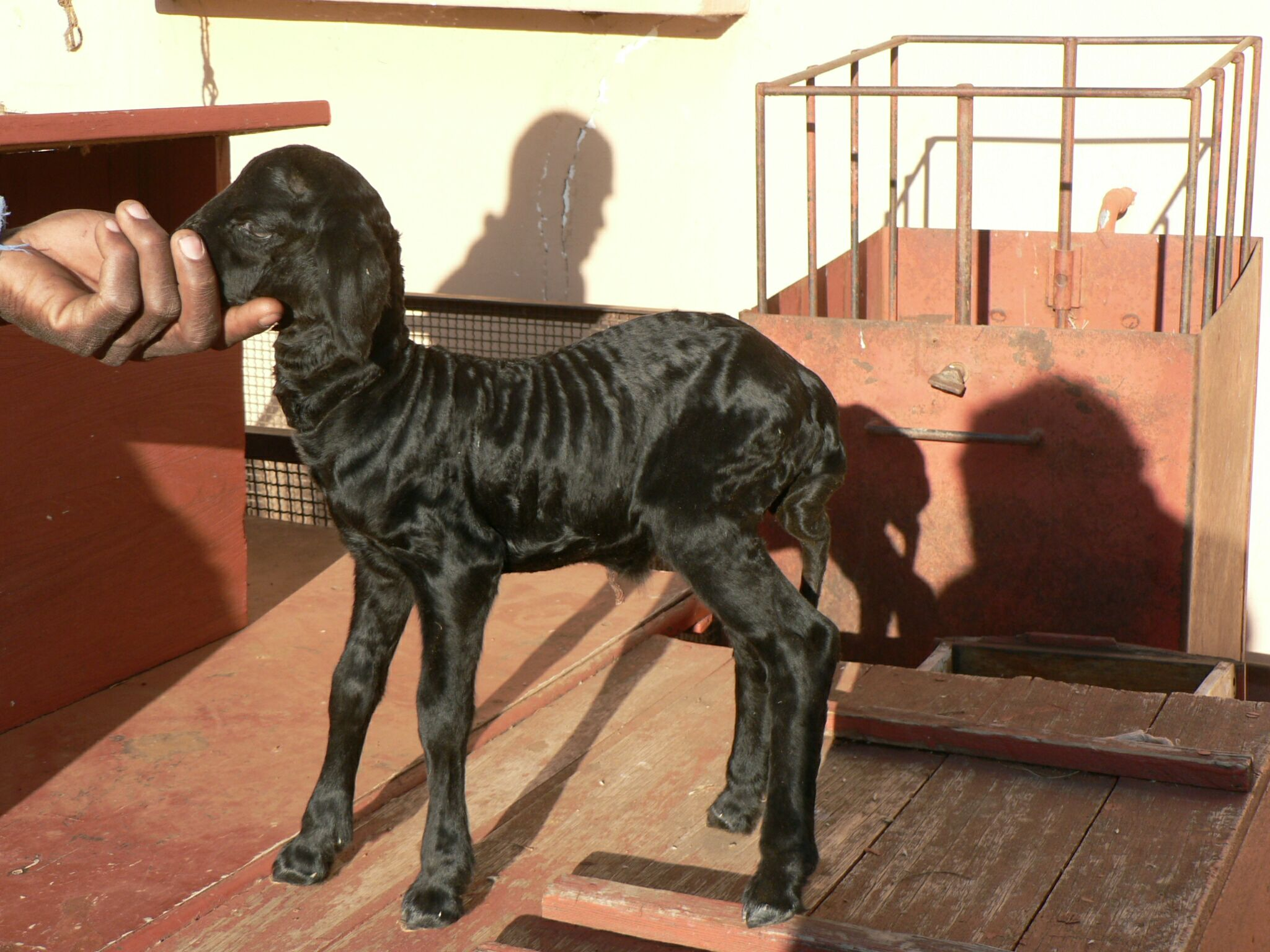 Ovis aries Linné, Karakul lamb (Persian lamb) in Namibia